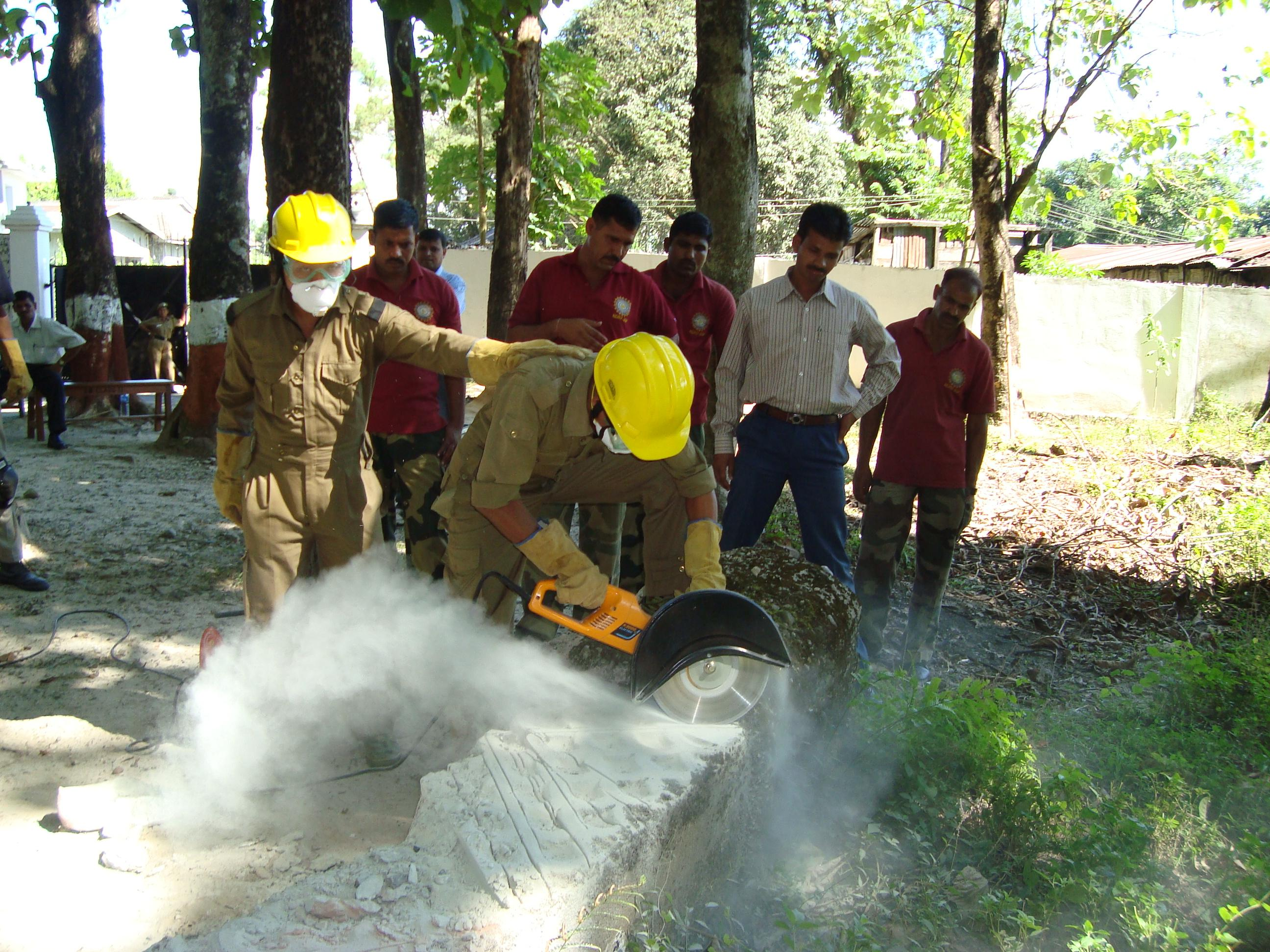 SDRF Training for Arunachal Police Personnel